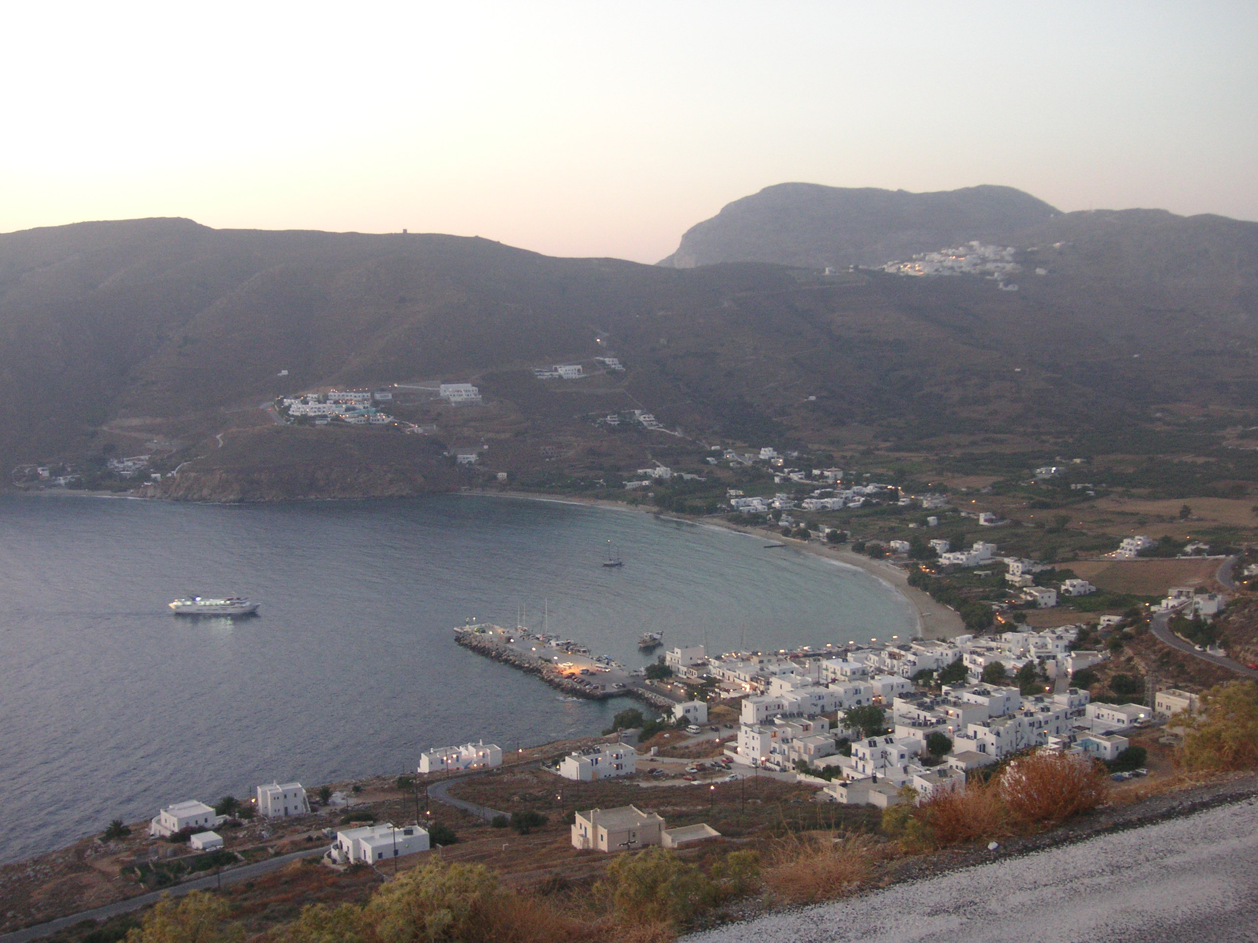 Ormos Egialis, on Amorgos (Cyclades, Greece) at sunset.